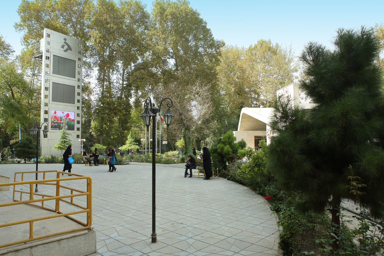 a picture from Alzahra university yard